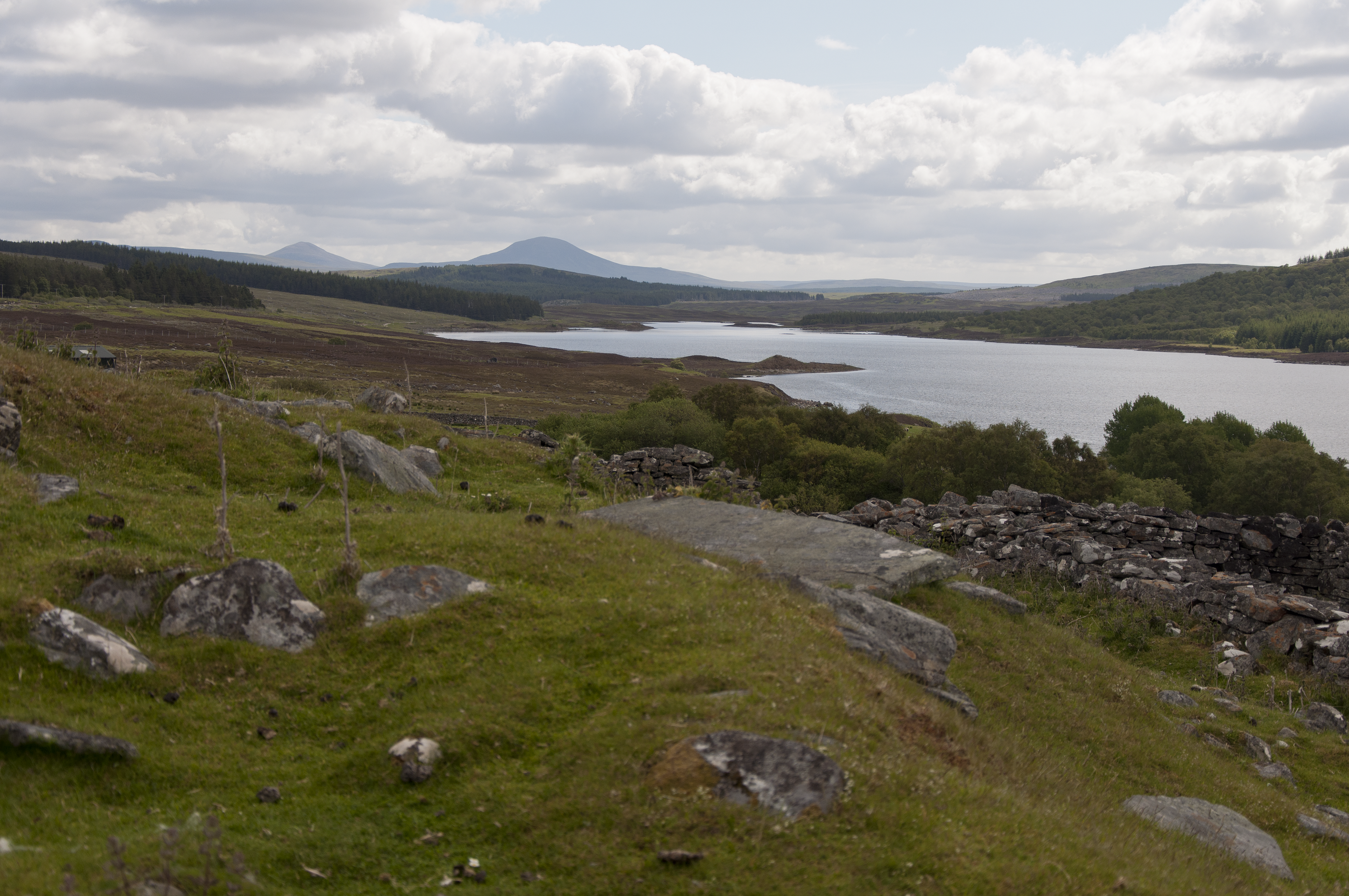 Grumbeg, Loch Naver, Scotland